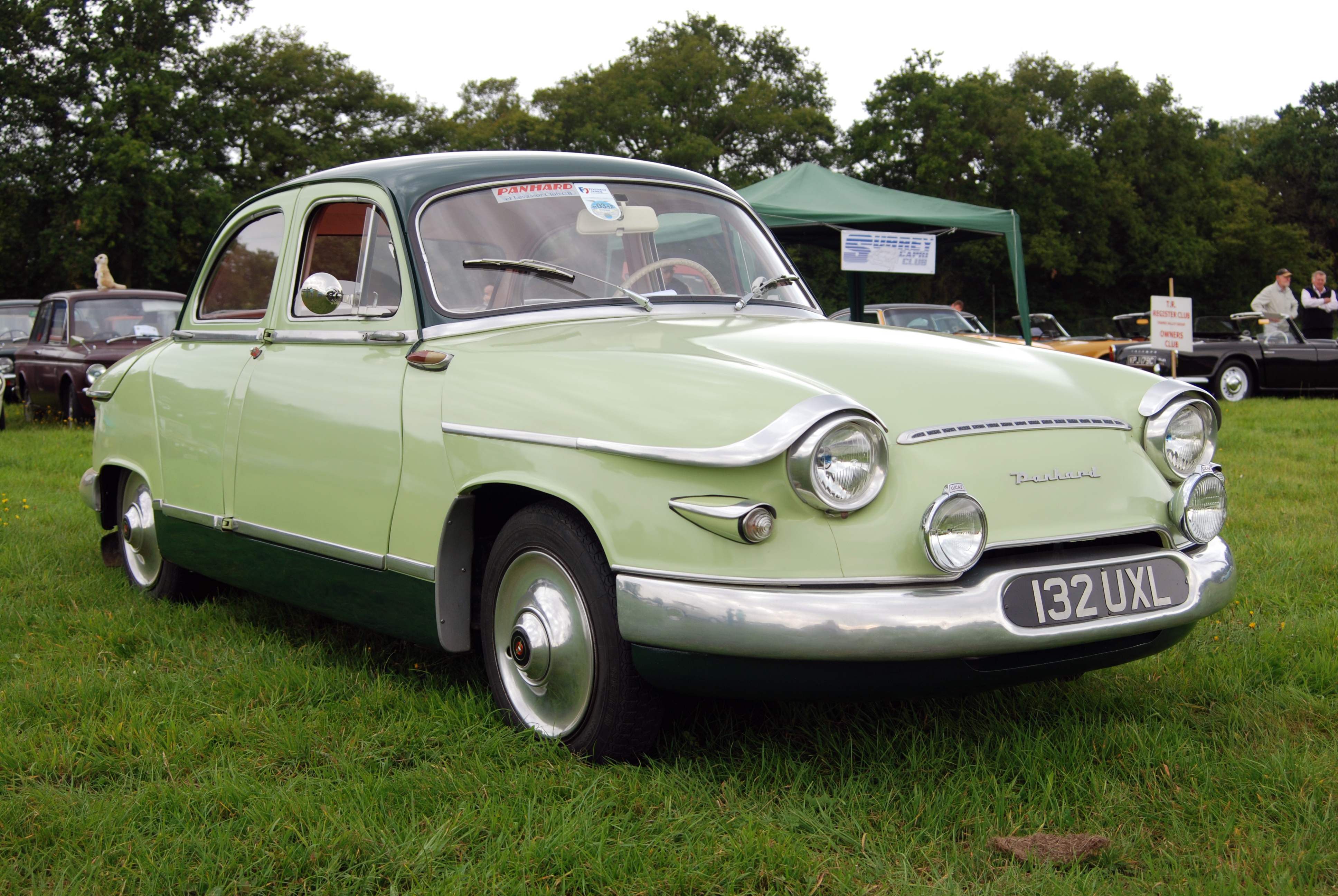 Cranleigh,Aug 2011